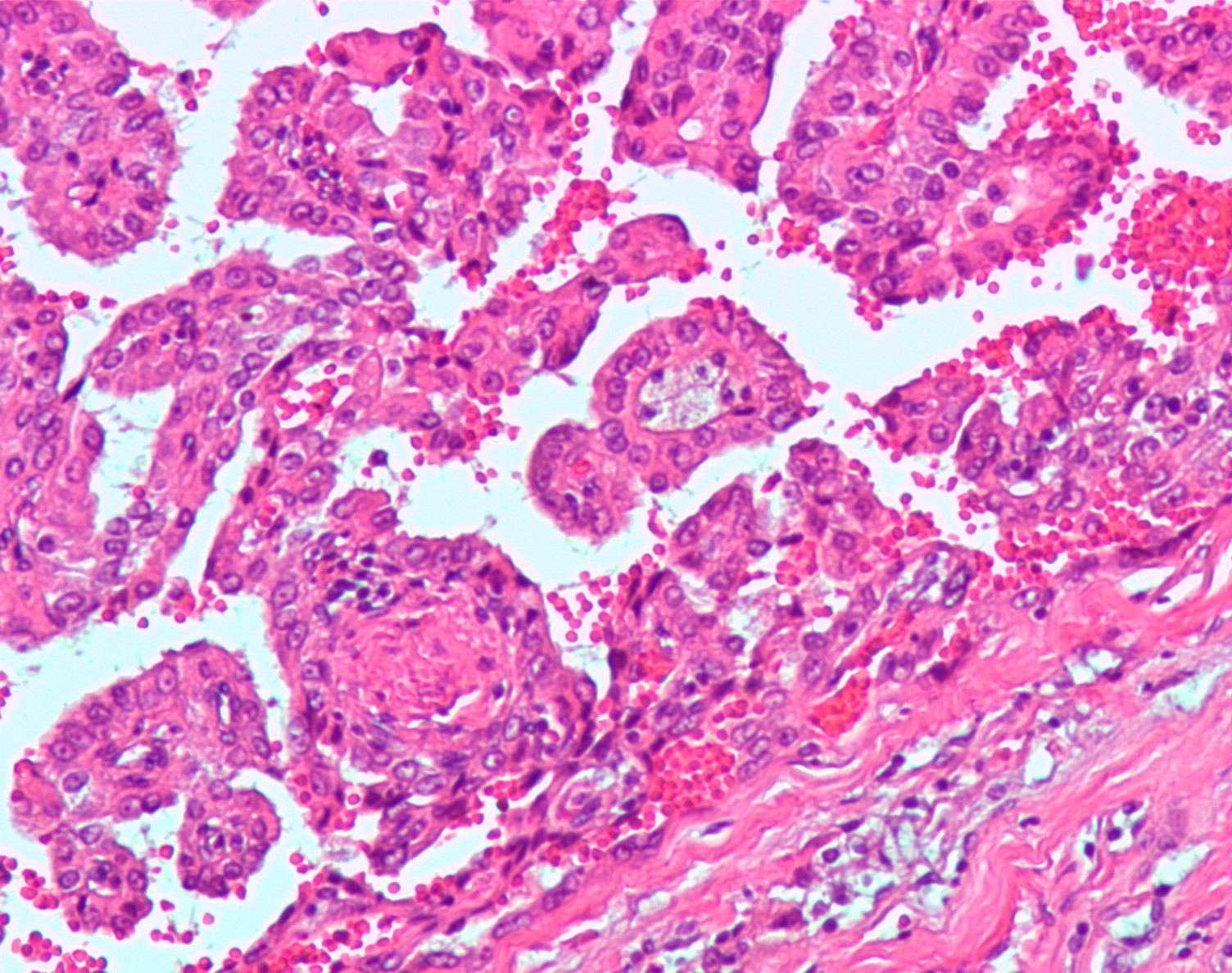 Micrograph of papillary type 1 renal cell carcinoma (RCC). H&E stain. Characteristics of papillary RCC: highly vascular interstitial foam cells papillae (with fibrovascular cores) Type 1 papillary RCC has: a single layer of cells on the basement membrane and usually has low grade nuclear features, i.e. a low Fuhrman grade. Type 2 papillary RCC has pseudostratification of cells and usually has high grade nuclear features, i.e. a high Fuhrman grade.